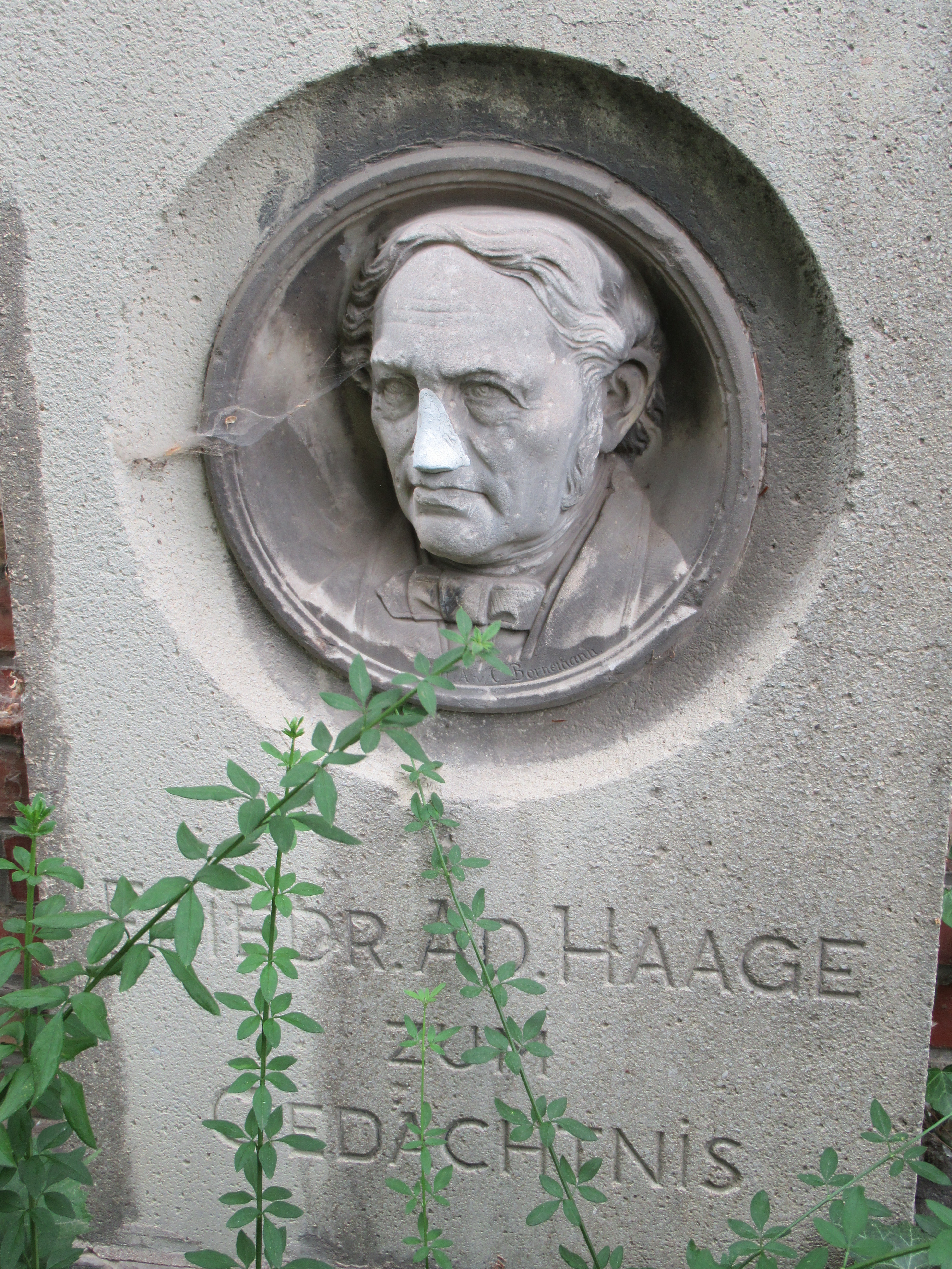 Monument of Friedrich Adolph Haage in Erfurt